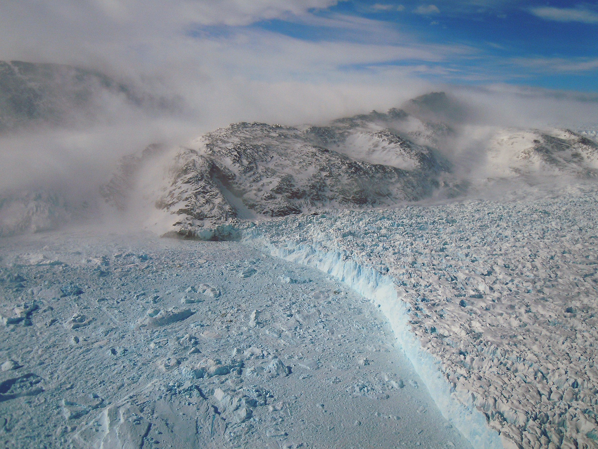 On April 11, 2011, IceBridge finally got the clear weather necessary to fly over glaciers in southeast Greenland. But with clear skies came winds of up to 70 knots, which made for a bumpy ride over the calving front of glaciers like Gyldenlove (above). Credit: Michael Studinger Operation IceBridge, now in its third year, makes annual campaigns in the Arctic and Antarctic where science flights monitor glaciers, ice sheets and sea ice.